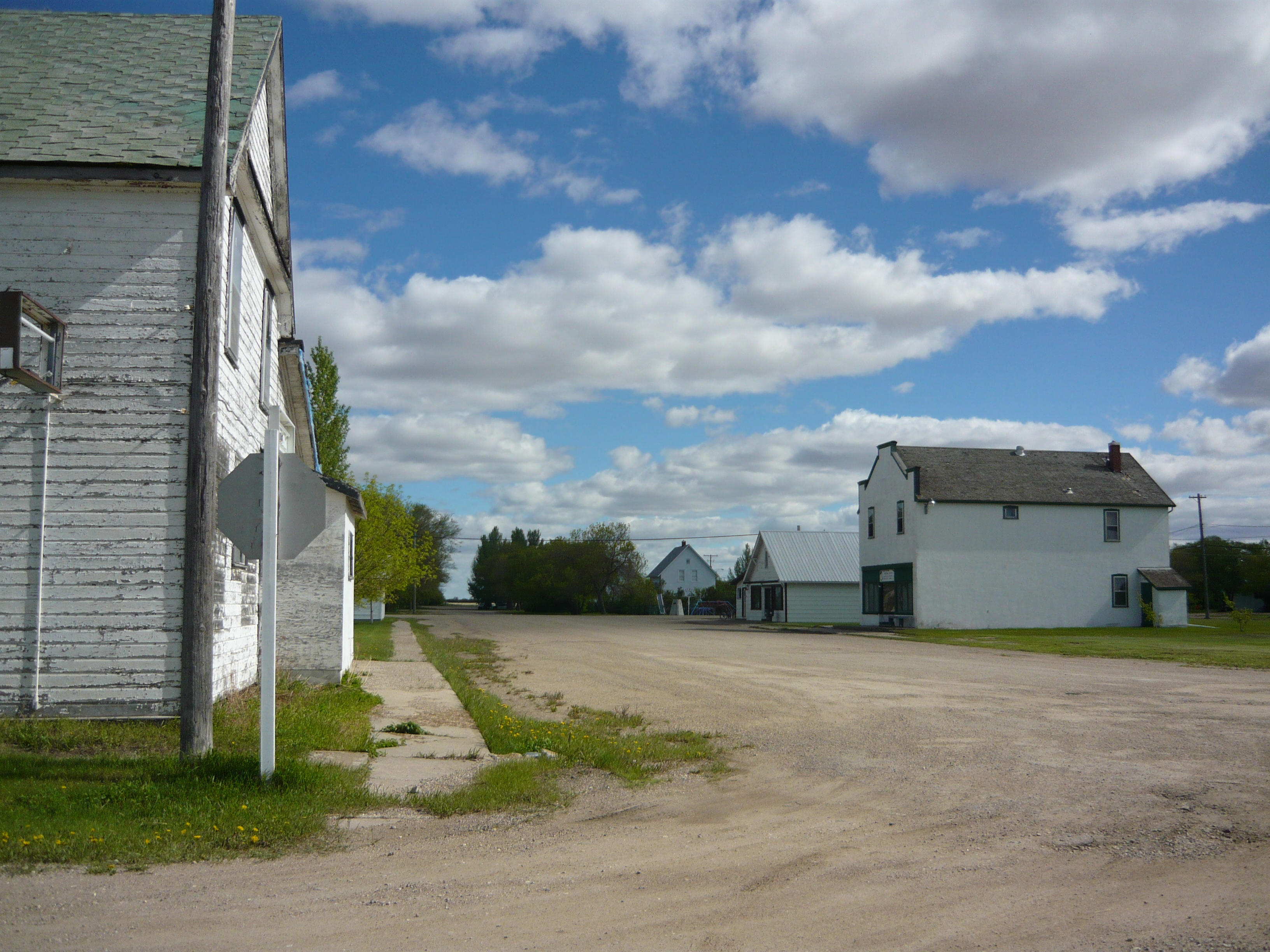 Zealandia, Saskatchewan, Canada. Looking south on Main Street from Railway Avenue.